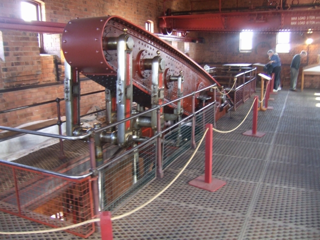 Beam 'D engine' Claymills Pumping Station The thirteen ton riveted steel girder rocks about a central pivot.